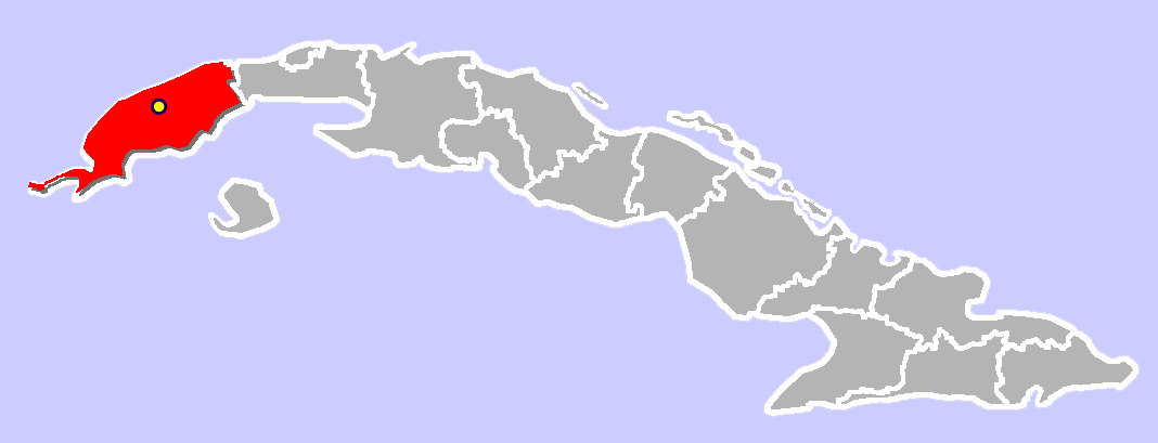 Location of Viñales, Cuba